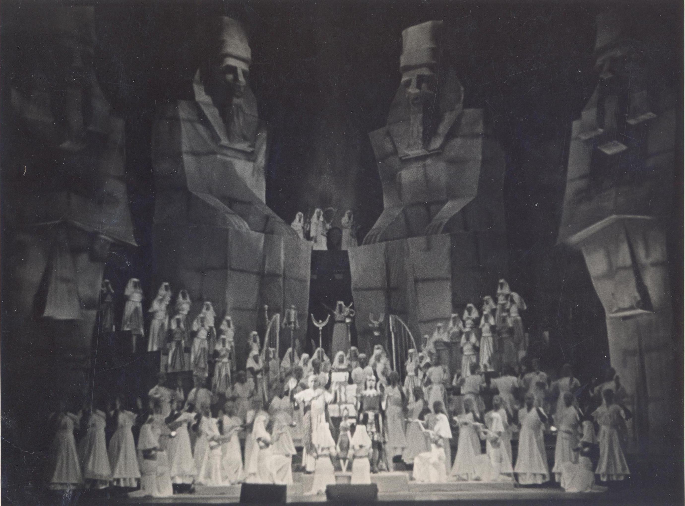 Aida, staging of Peter Rajchev in Zagreb Opera, 1935.